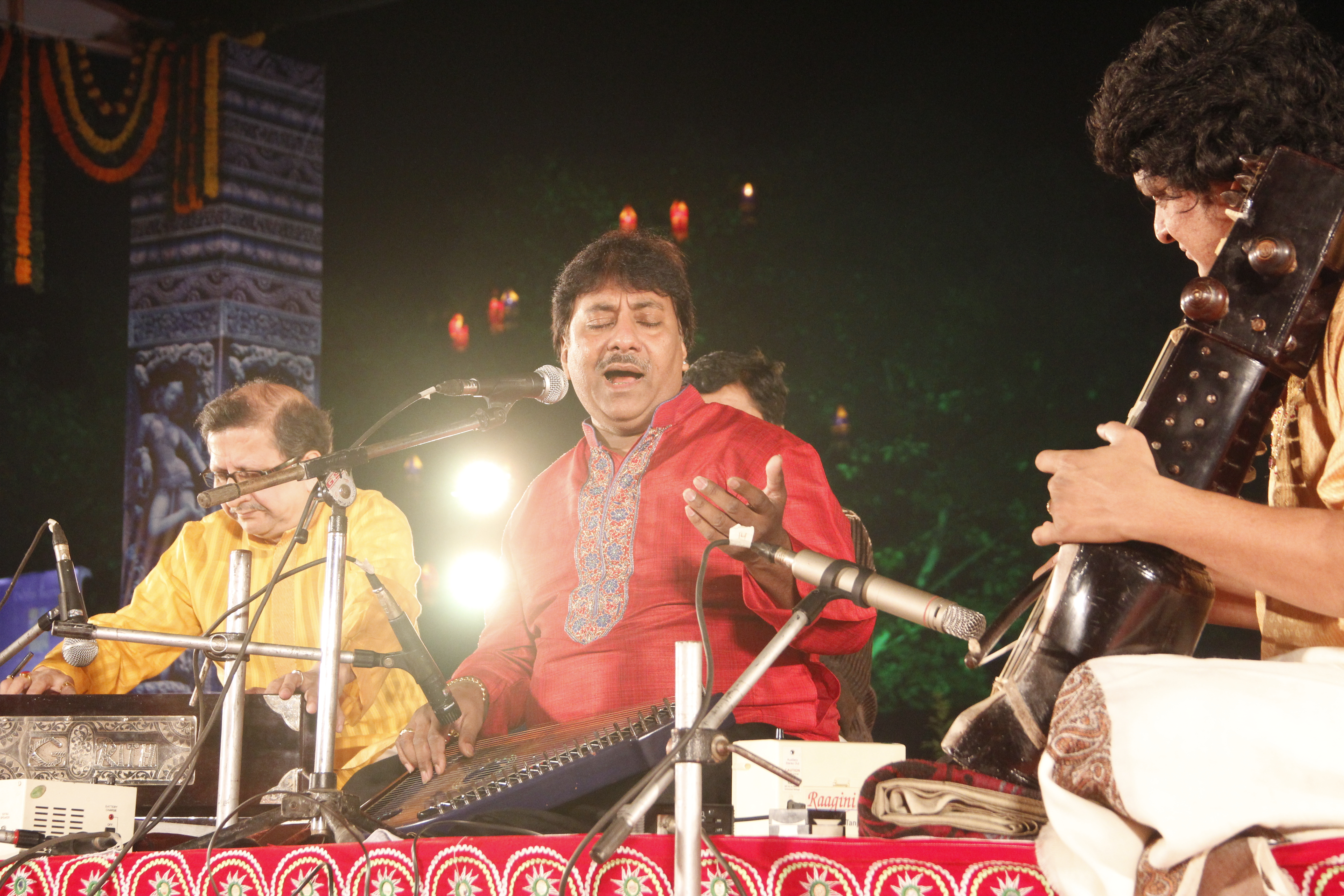 Ustad Rashid Khan at Rajarani Music Festival 2017, Bhubaneswar, Odisha